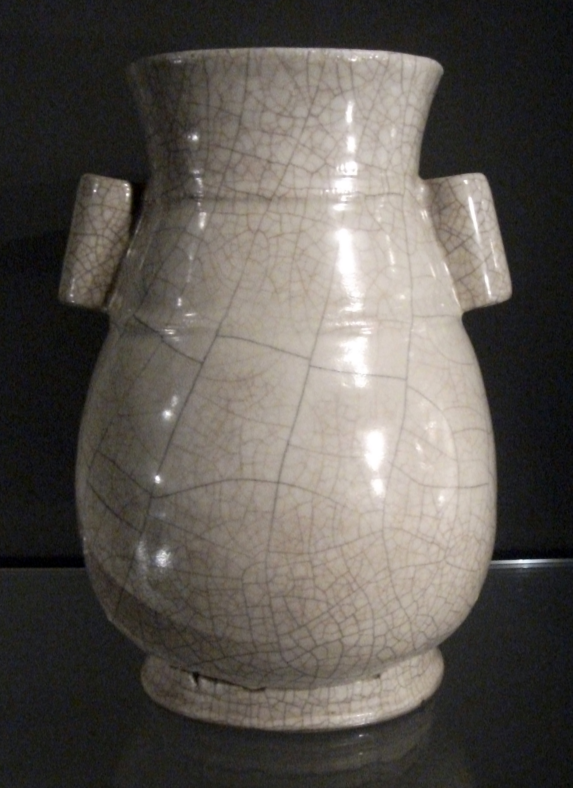 Percival David Collection, Room 95, British Museum